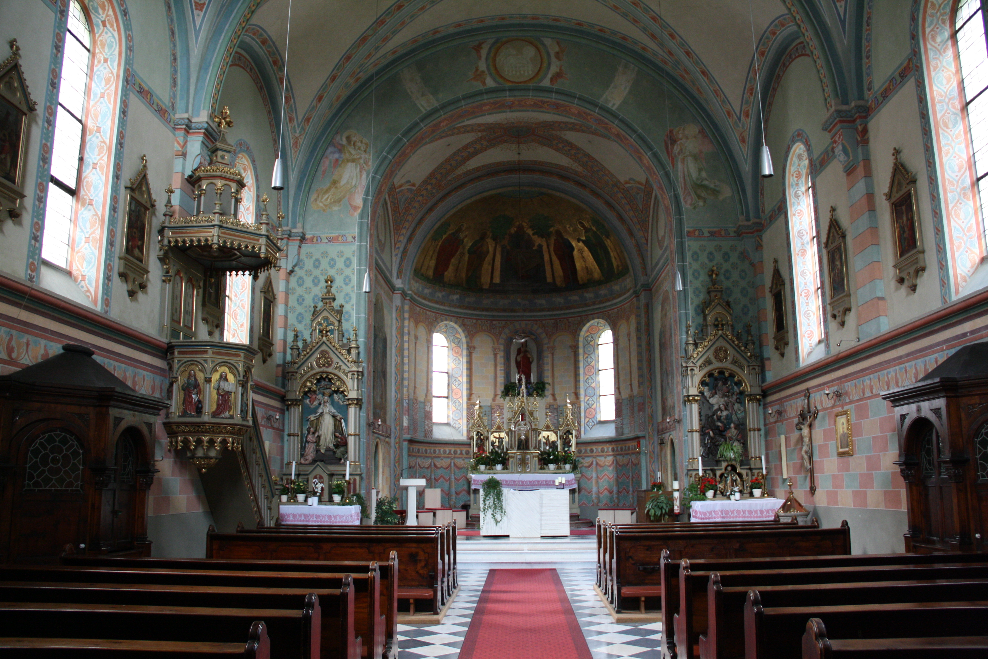 Italy, South Tyrol, Franzensfeste. The Parish church “Sacred Heart of Jesus”” built in 1899 in neo-Romanesque style on plan of Franz von Neumann and under the direction of Josef Huber. On the occasion of the centenary were brought to light the frescoes representing the birth and the resurrection of Christ. Object location46° 47′ 12.42″ N, 11° 36′ 45.14″ E